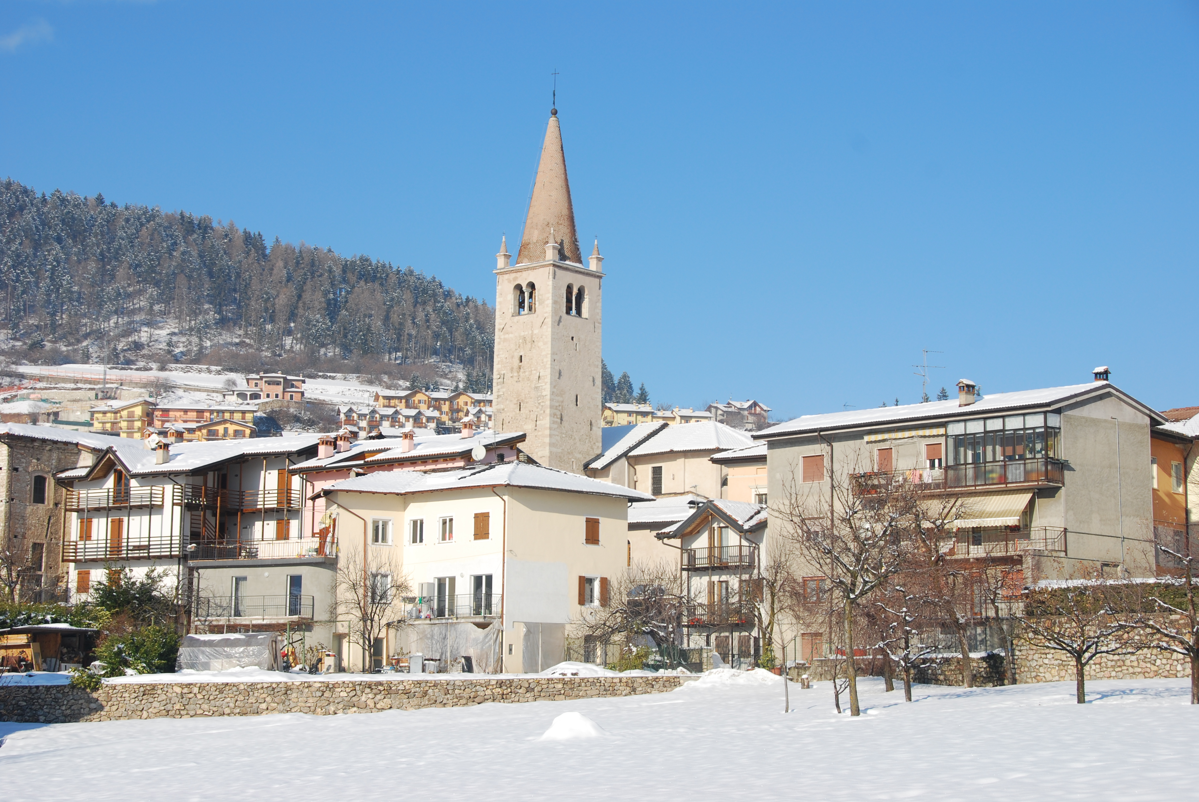 Brentonico